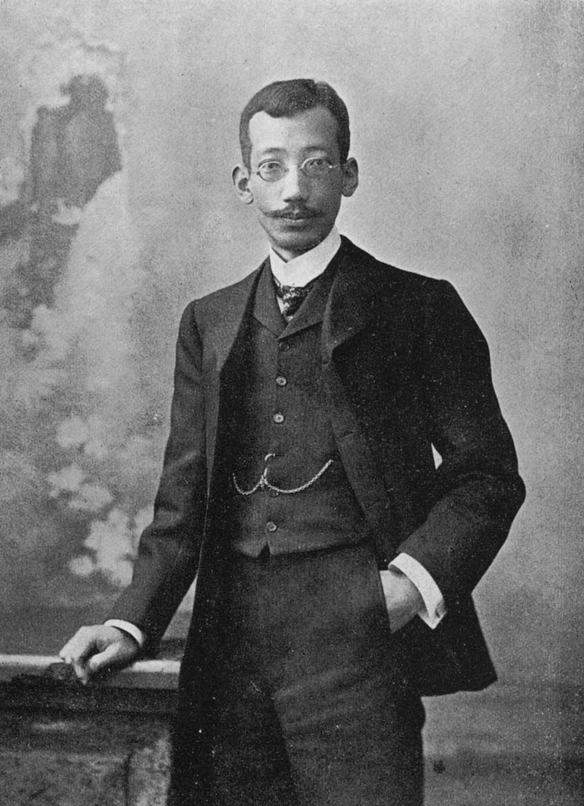 T. Minobe, Professor of Comparative History of Legal Institutions in the Tokyo Imp. University.